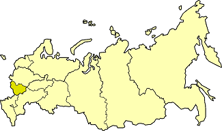 central-chernozem economic region based on Image:Economic regions of Russia.png